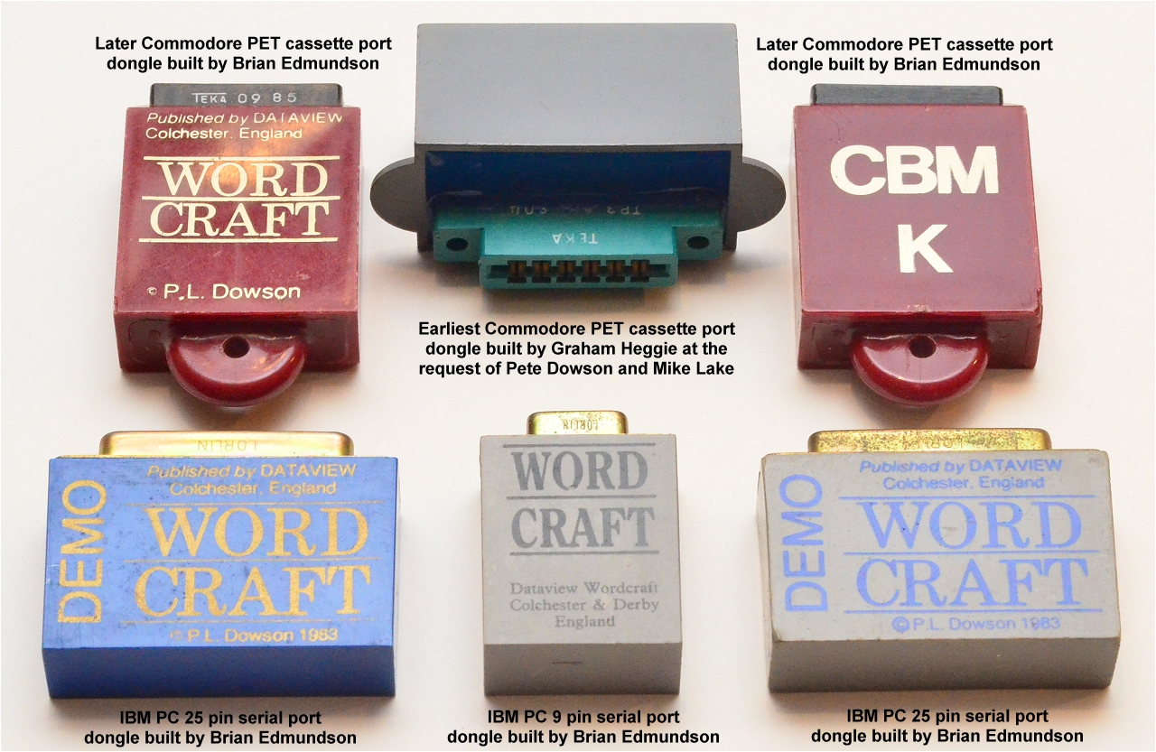 Software protection dongles produced for the Wordcraft word processor running on the Commodore PET and IBM PC.